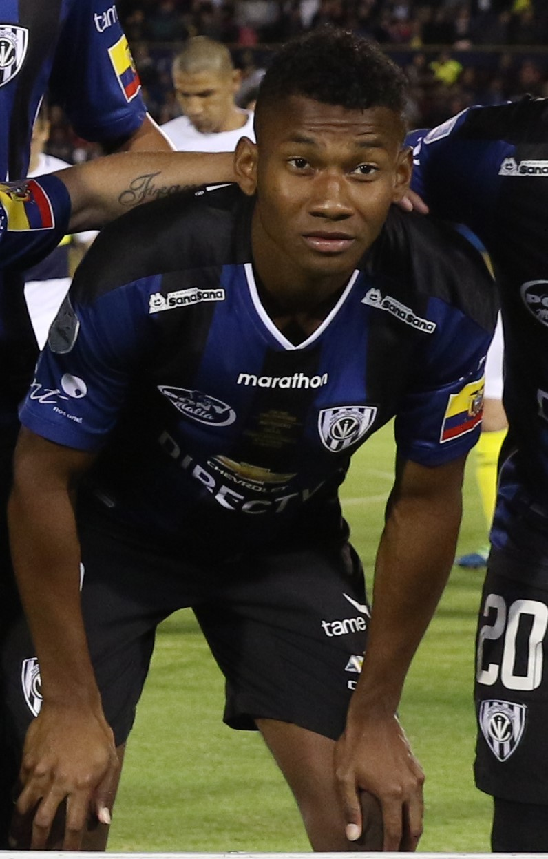 Bryan Cabezas